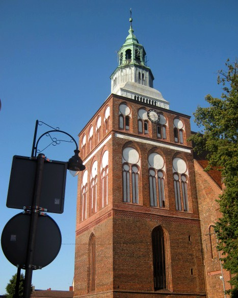 The tower of StMary's church in Gryfice (Poland)